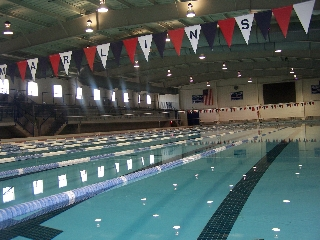 Keating Natatorium at St. Xavier High School in Cincinnati, Ohio. The Cincinnati Marlins and St. Xavier Aquabombers share this facility for training and hosting swim meets.